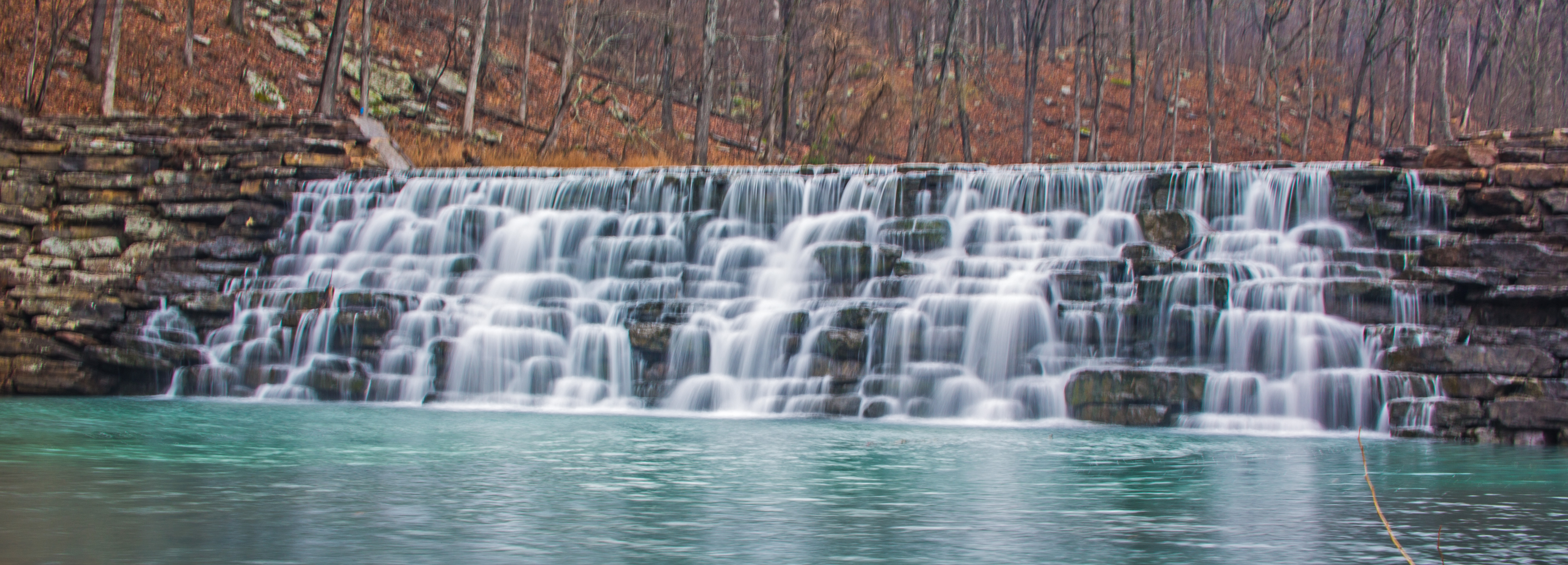 Water flowing nicely at Devil's Den State Park in Arkansas